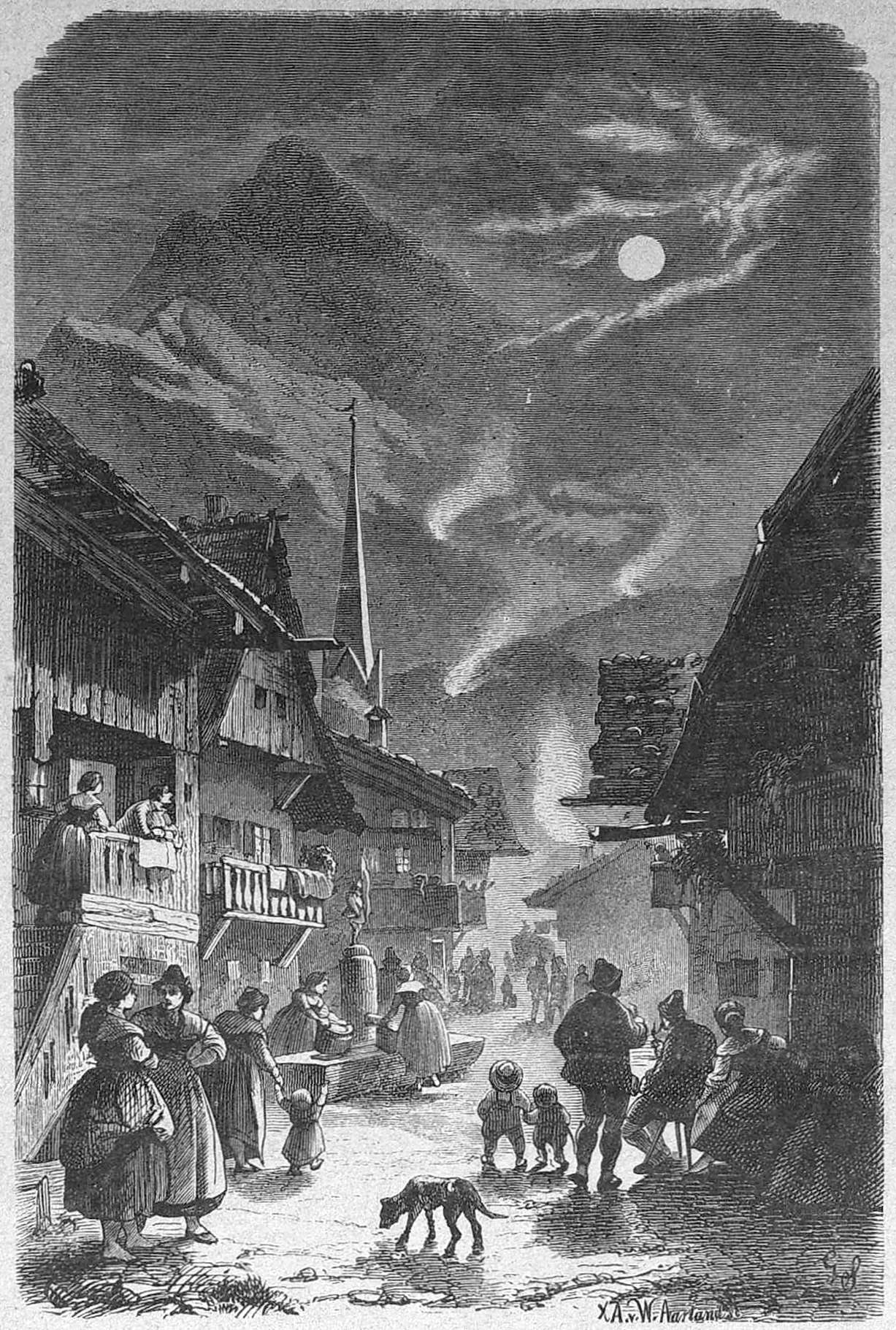 caption: "Die Johannisfeuer in Partenkirchen. Nach der Natur aufgenommen von Sundblad."